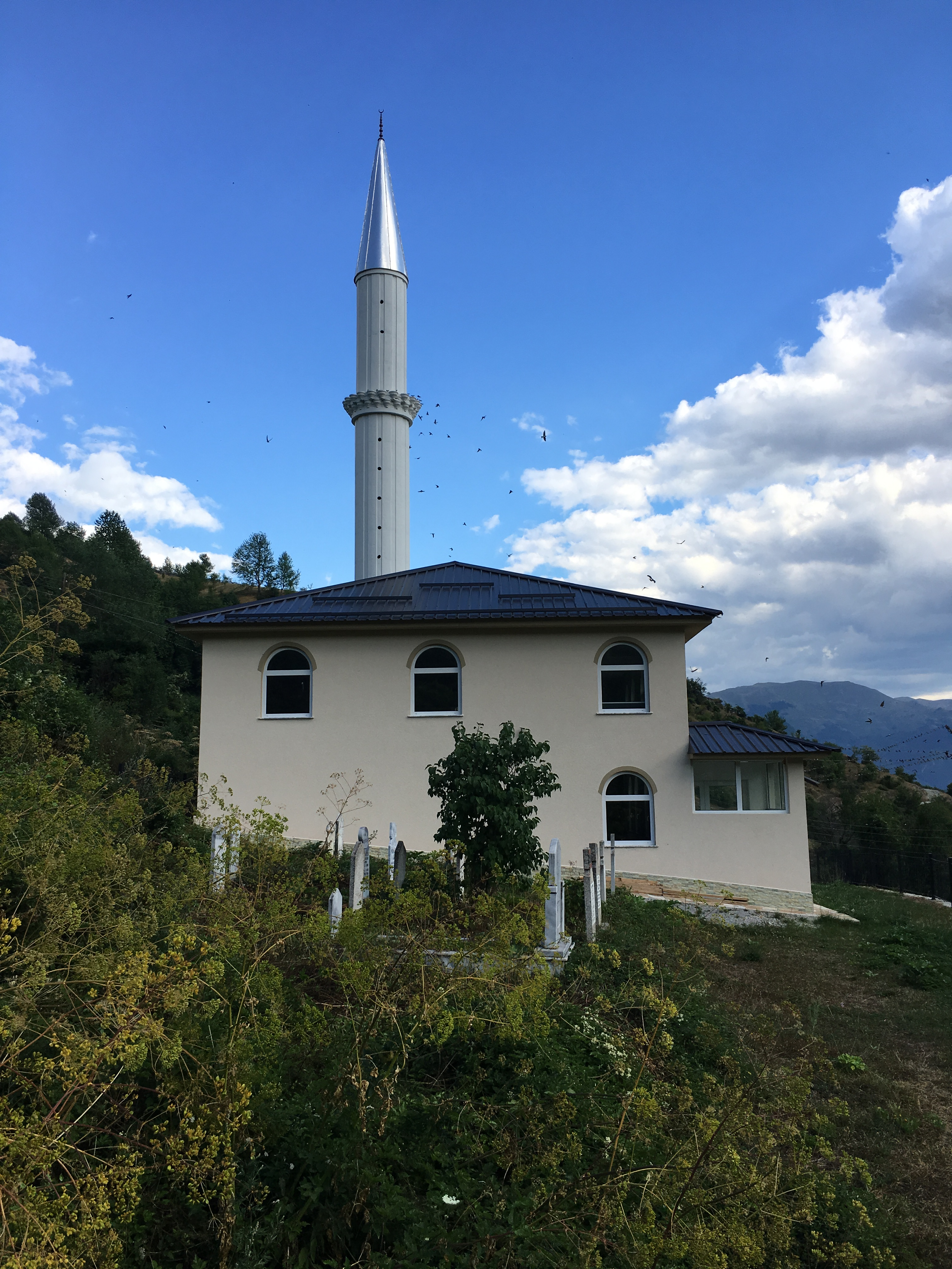 Mosque in the village of Nistrovo